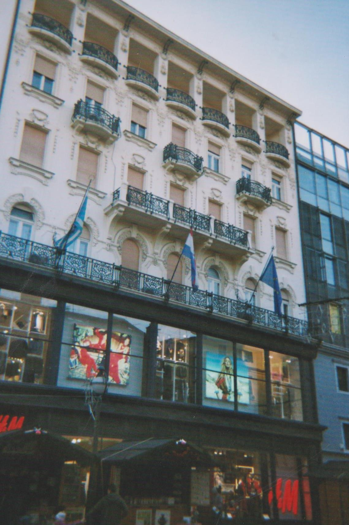 Commercial building in Rijeka, on central Korzo street